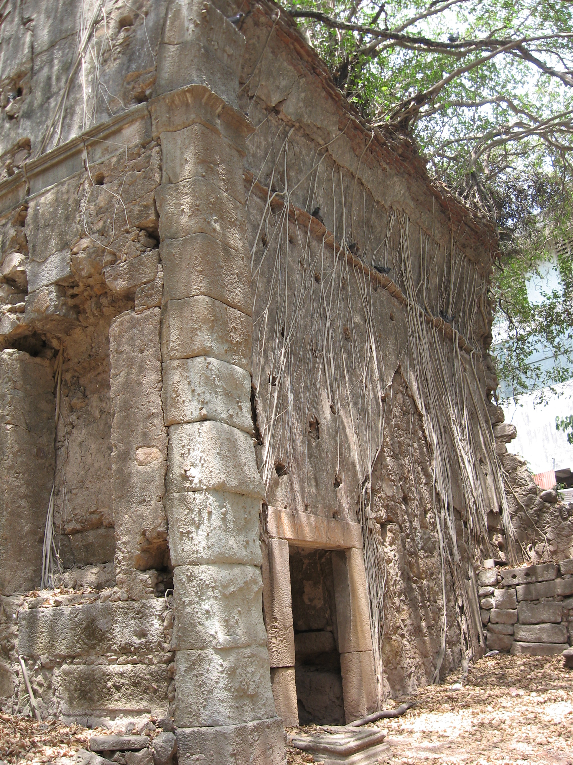 St. John the Baptist Church, in SEEPZ Mumbai. Built in 1579 by the Portuguese. Now in the restricted SEEPZ area